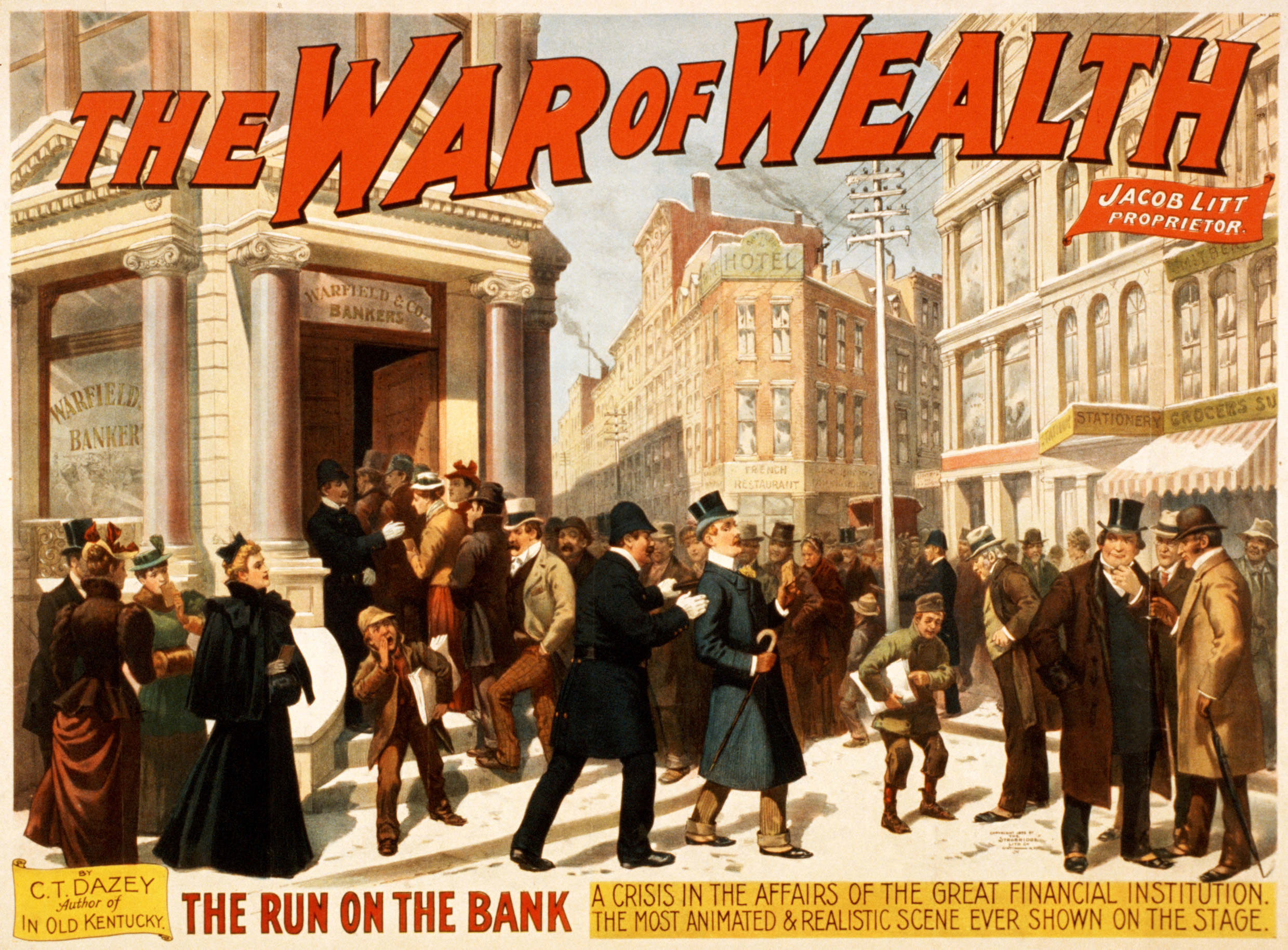 Poster for the "War of Wealth" by Charles Turner Dazey, a play that opened February 10, 1895. Library of Congress Bibliographic information: TITLE: The war of wealth CALL NUMBER: POS - TH - 1895 .W37, no. 1 (C size) [P&P] REPRODUCTION NUMBER: LC-USZC4-591 (color film copy transparency) LC-USZ6-380 (b&w film copy neg.) No known restrictions on publication. MEDIUM: 1 print (poster) : lithograph, color ; 77 x 102 cm. CREATED/PUBLISHED: Cin'ti ; N.Y. : Strobridge Lith. Co., c1895. CREATOR: Strobridge & Co. Lith. RELATED NAMES: Litt, Jacob. Dazey, Charles Turner, 1855-1938. NOTES: Created and "copyright 1895 by The Strobridge Lith Co, Cin'ti. -- N.Y." Jacob Litt, proprietor. By C.T. Dazey, author of In old Kentucky. Caption: The run on the bank : a crisis in the affairs of the great financial institution. The most animated and realistic scene ever shown on the stage. N.Y. 6312. SUBJECTS: Business panics. Banks. Crowds. Melodramas. FORMAT: Theatrical posters American. Lithographs Color. PART OF: Theatrical Poster Collection (Library of Congress) REPOSITORY: Library of Congress Prints and Photographs Division Washington, D.C. 20540 USA DIGITAL ID: (digital file from intermediary roll copy film) var 0760 CARD #: var1994000815/PP